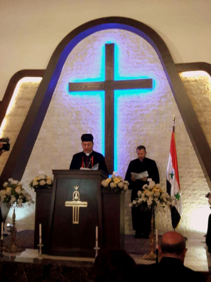 National Presbyterian Church of Aleppo, the new church.